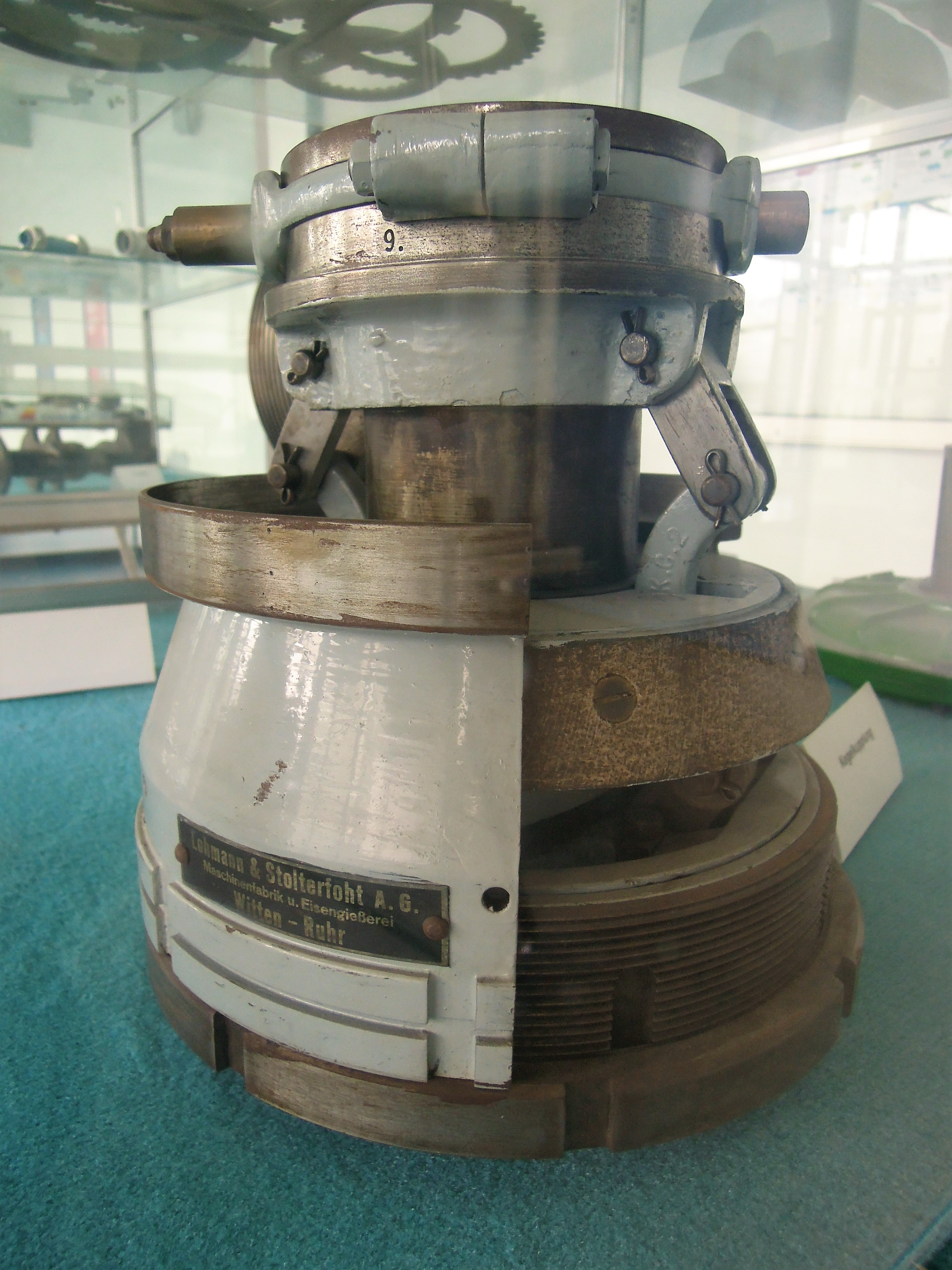 A cone clutch partially opened for educational purposes.